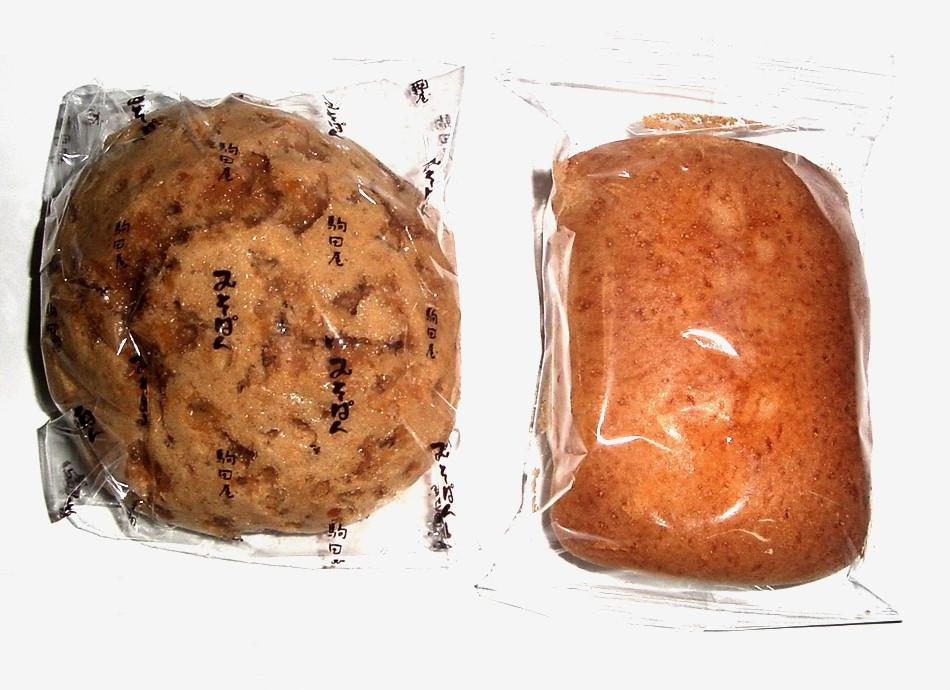 2 types of Miso breads in Japan